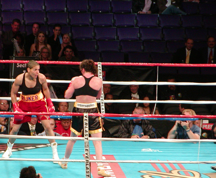 Lucia Rijker (L), in the ring together with Jane Couch (R) at June 21 2003. Rijker won the fight with an UD after 8 rounds.